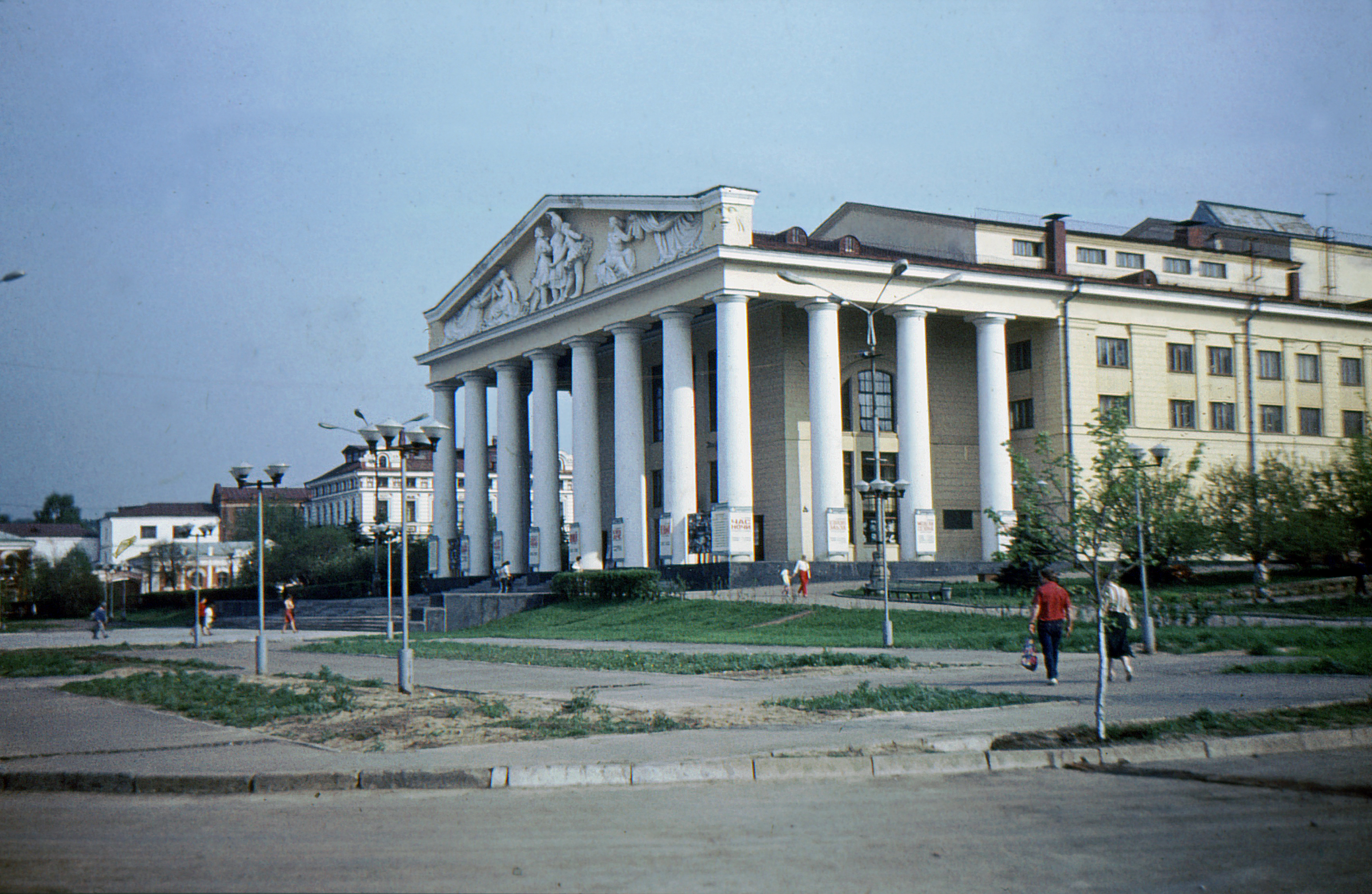 Cheboksary. Chuvash Drama Theatre, End of 1980s.